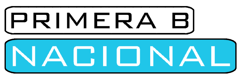 Argentine football championship "Primera B Nacional" logo.